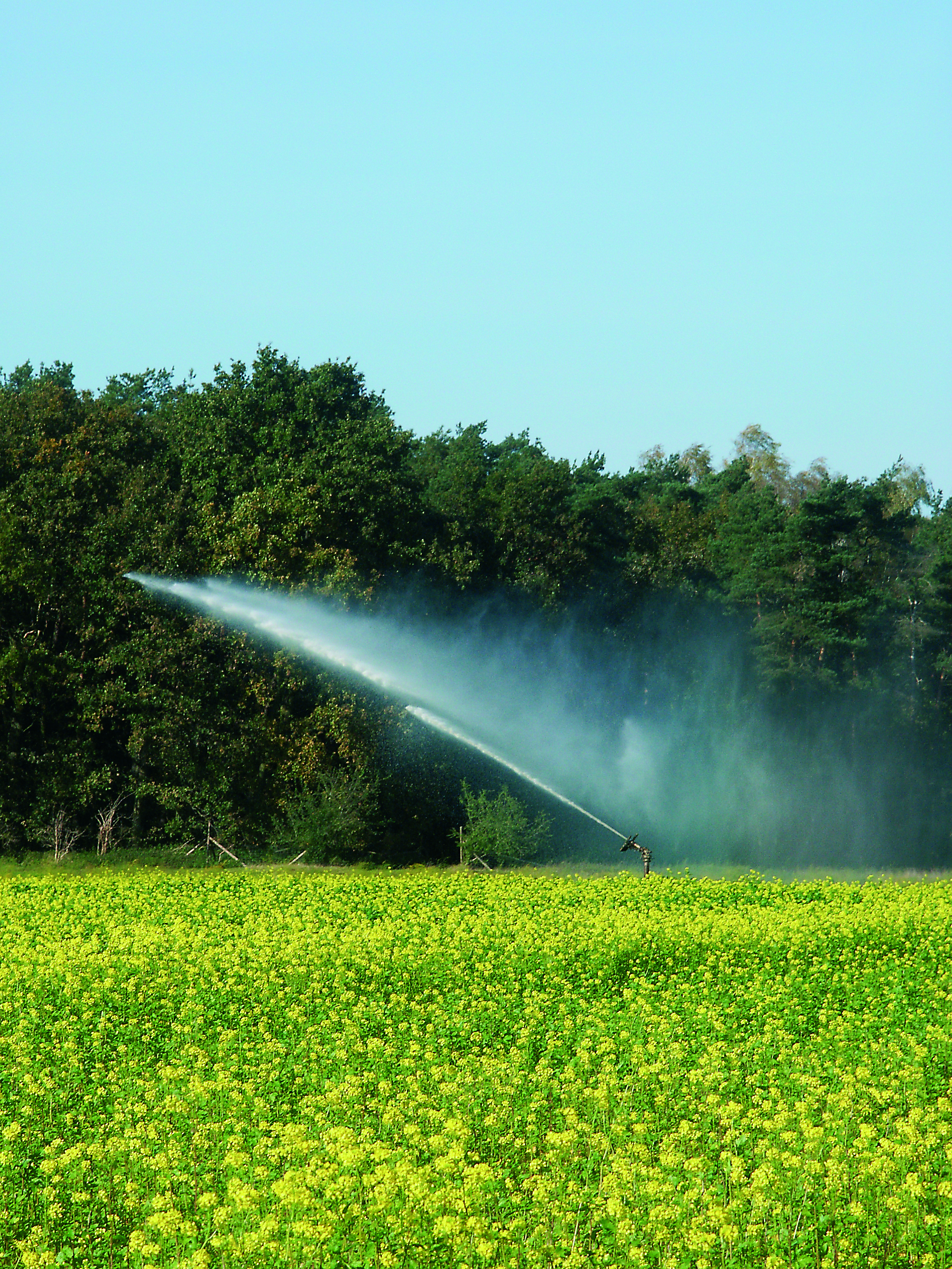 Irrigation